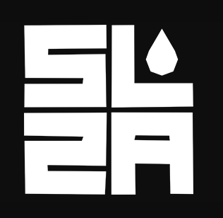 Logo of Czech music band Slza